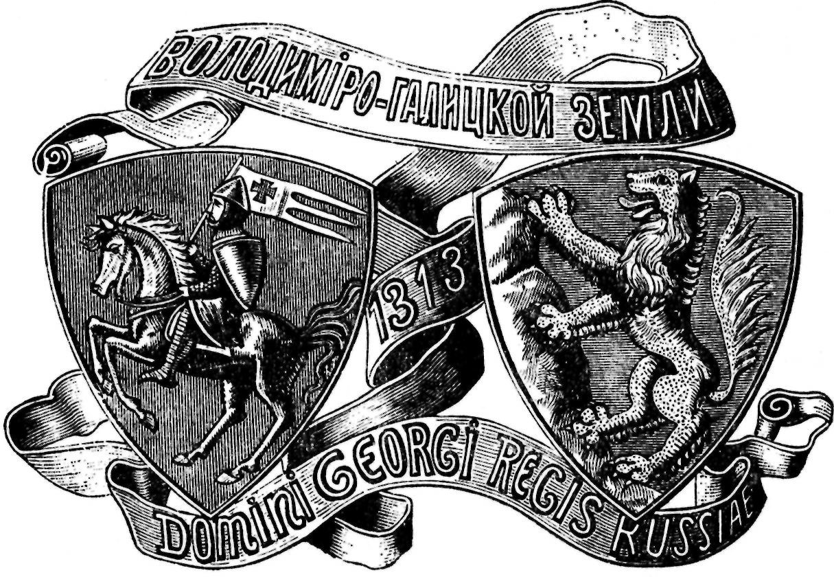 Coat of Arms of The Kingdom of Galicia–Volhynia, 1313.